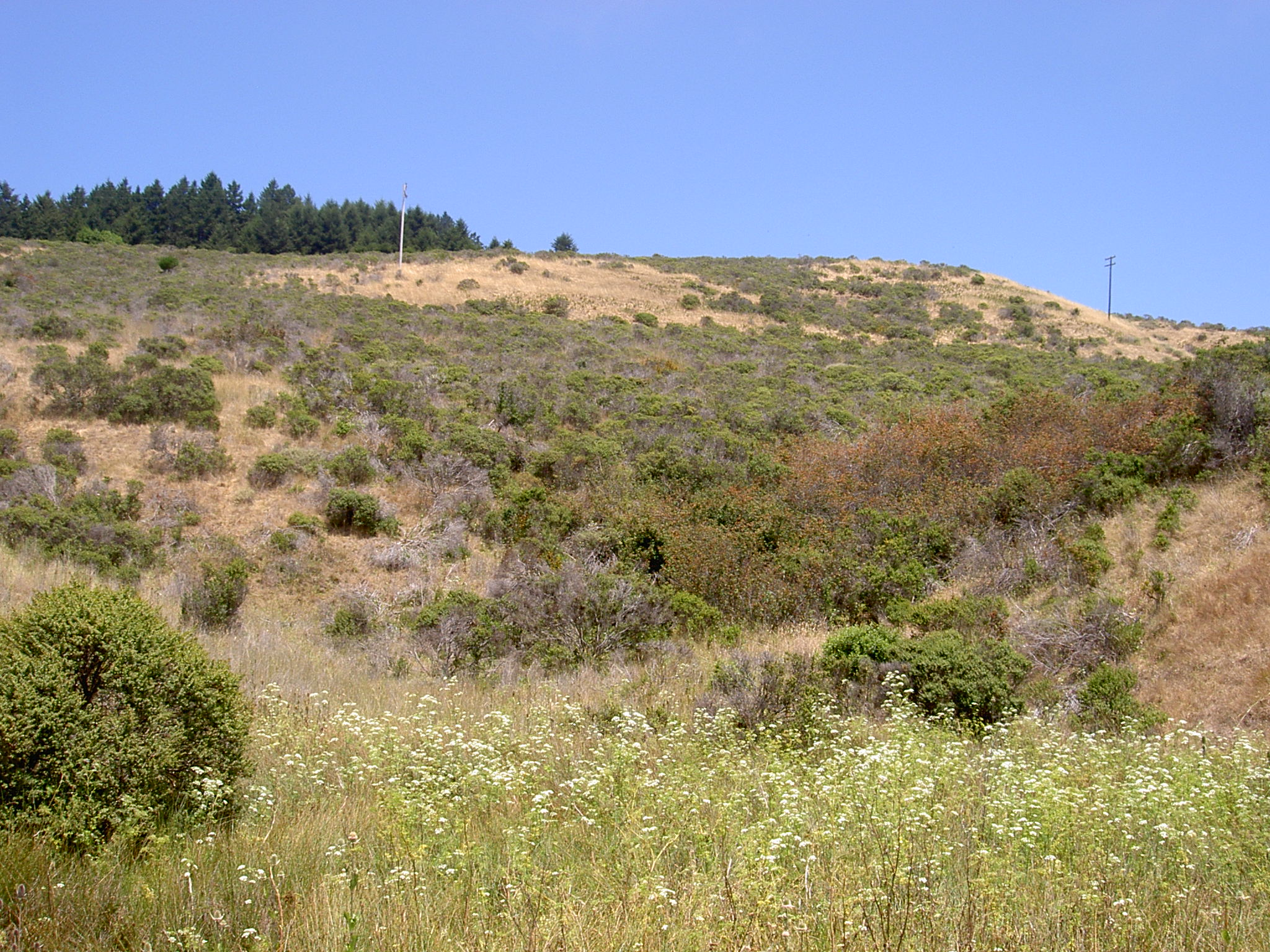 Morses Gulch in western Marin County taken from mile 15.15 of California State Route 1